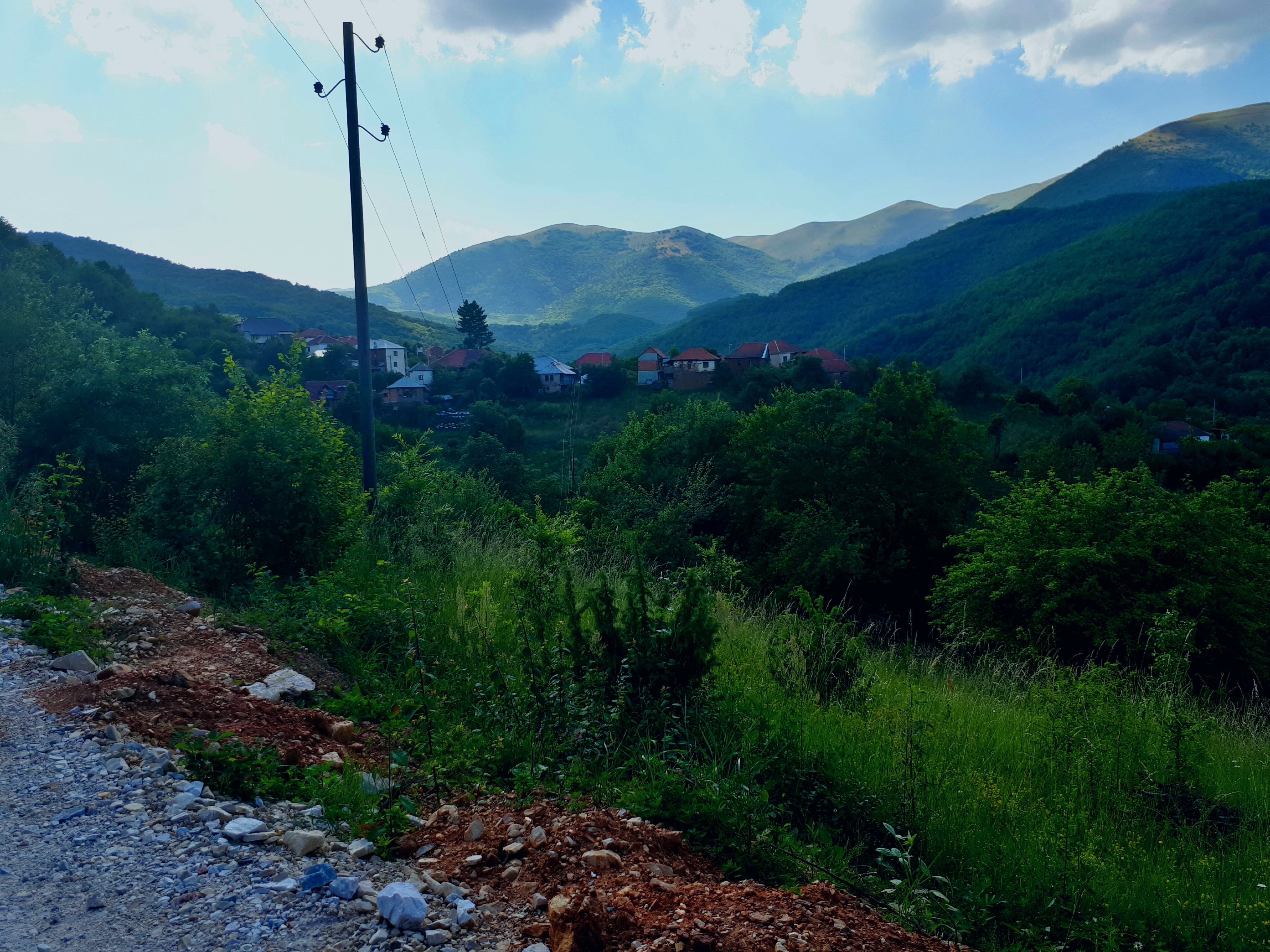 View of the village Volče